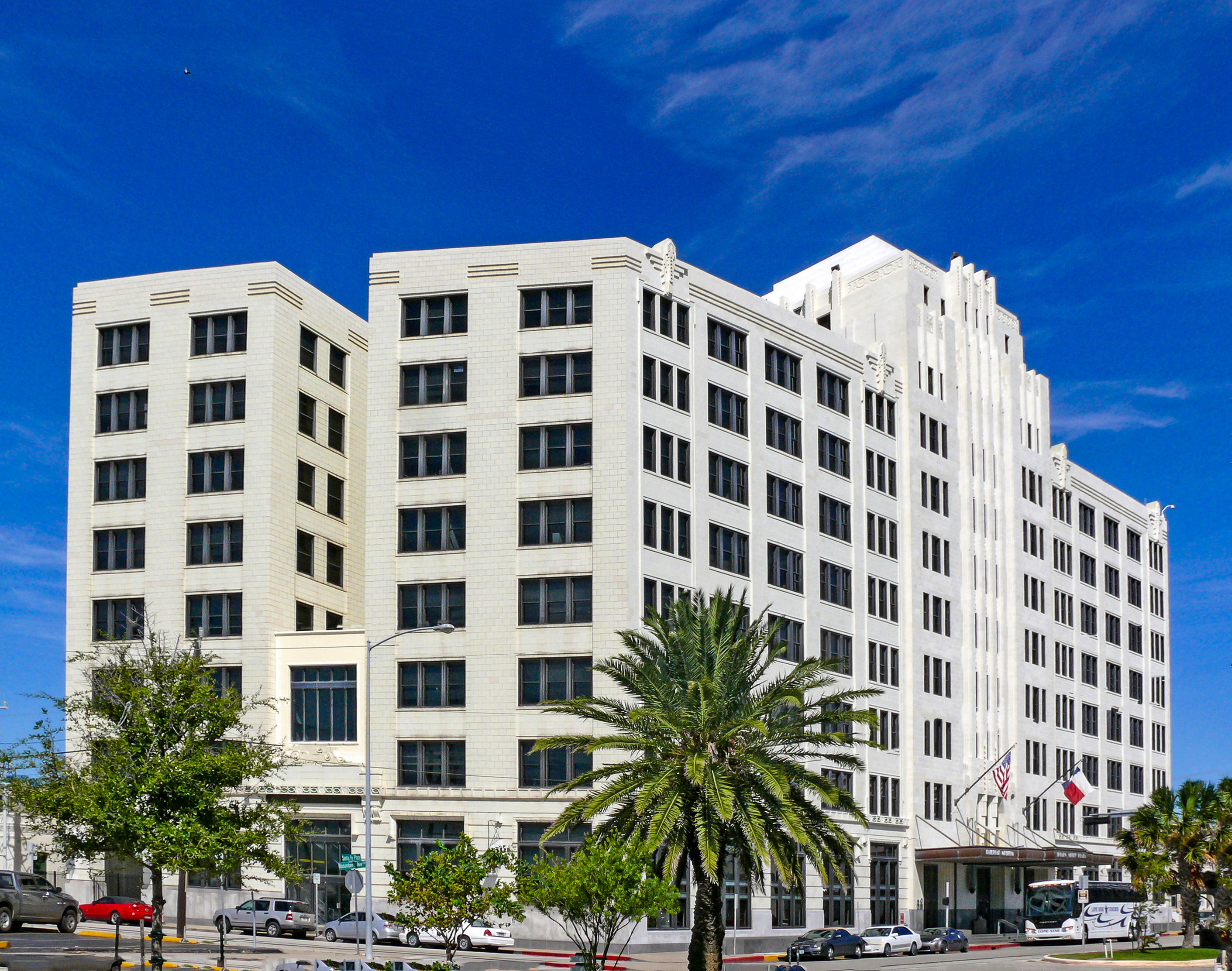 The south half of this building was constructed in 1913 to serve as a central passenger station for Galveston's railway system and to house the general offices of the Atchison, Topeka & Santa Fe Railroad's Gulf lines. In 1932 an 11-story tower and 8-story north wing were added, incorporating elements of the art deco style. In 1964 the Galveston office of the Santa Fe Railroad closed, and the company's last passenger train stopped here three years later. Today it serves as a railroad museum and commercial offices.